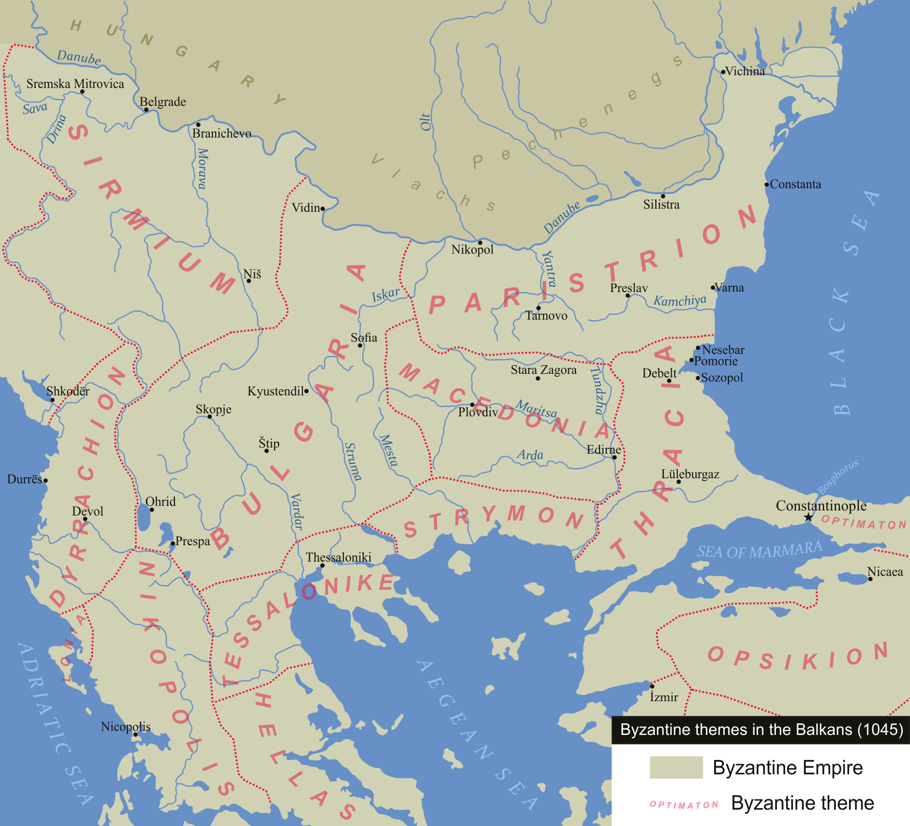 A map showing the Byzantine themata (administrative units) of the Byzantine Empire in 1045 CE, focusing on central Balkans around the region of Macedonia. The Macedonian thema is in what today is part of present-day Bulgaria, while the Bulgarian thema includes what today is the Republic of Macedonia. Note that the thematic boundaries in this map, especially those of Strymon and Macedonia, are very inaccurate. Macedonia was catually located further south, up to the Aegean coast of western Thrace